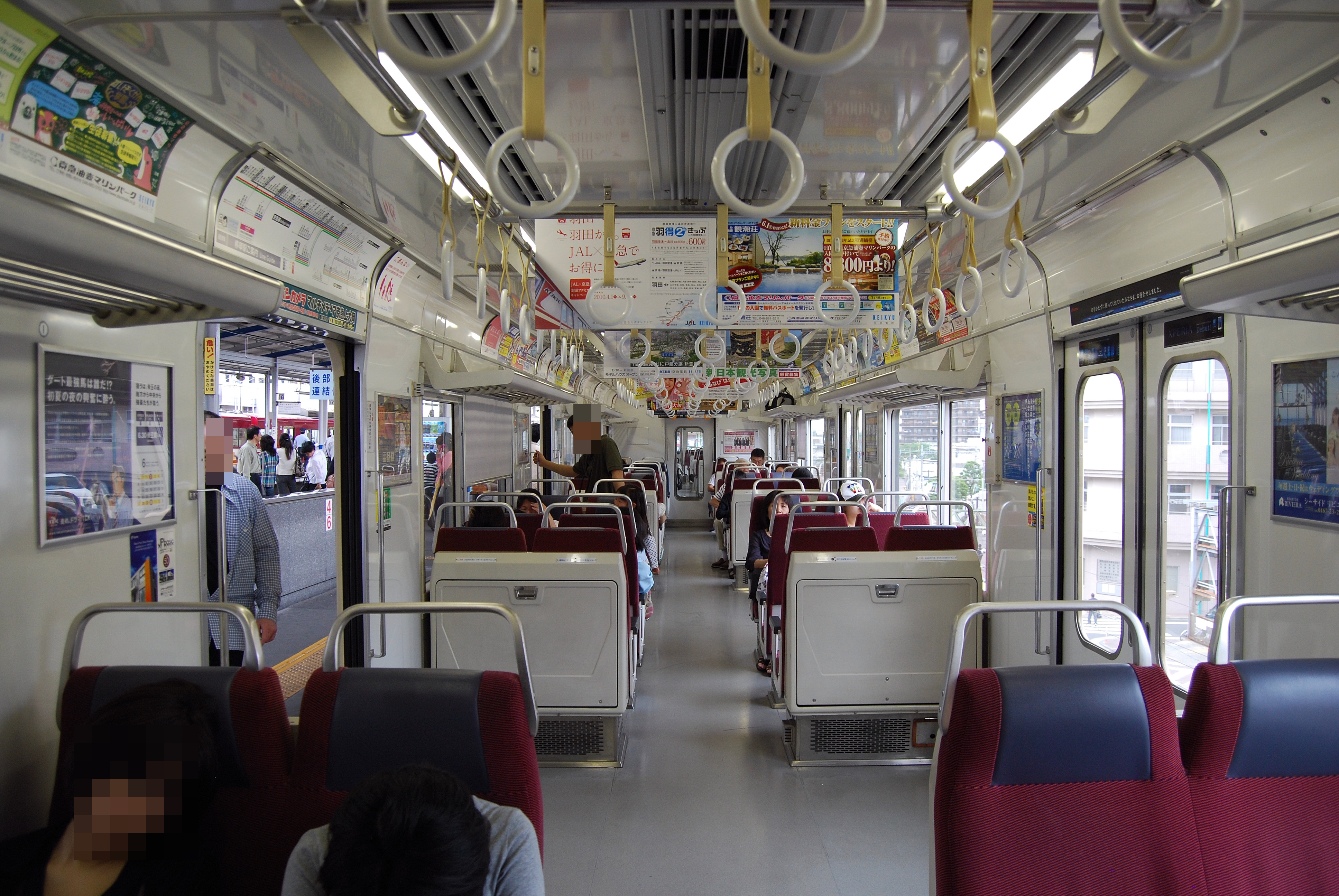 Interior of a Keikyu 600 series EMU (4th batch type)